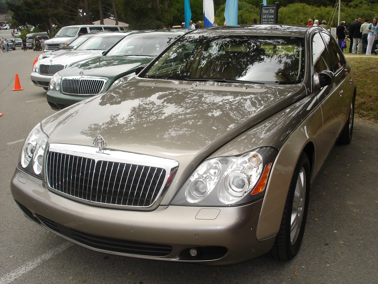 Four Maybachs in Pebble Beach, CA